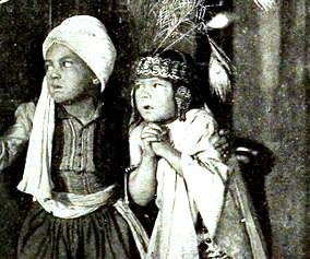 Still from the American film Ali Baba and the Forty Thieves (1918) with Ali Baba (George Stone) and Morgiianna (Gertrude Messinger), from pages 16 and 17 of the February 1919 Film Fun. This is the only film win which Stone appeared in.